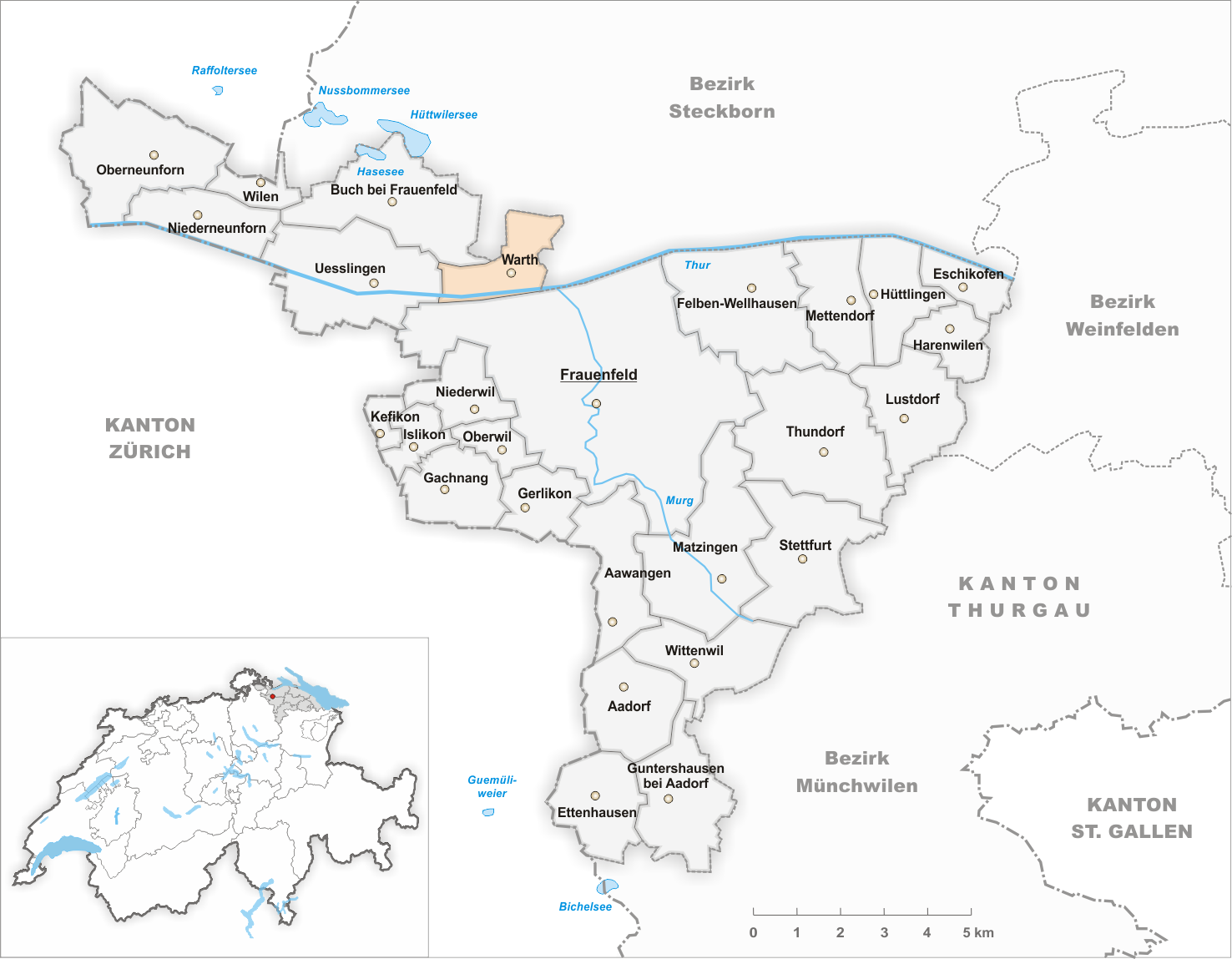 Municipality Warth